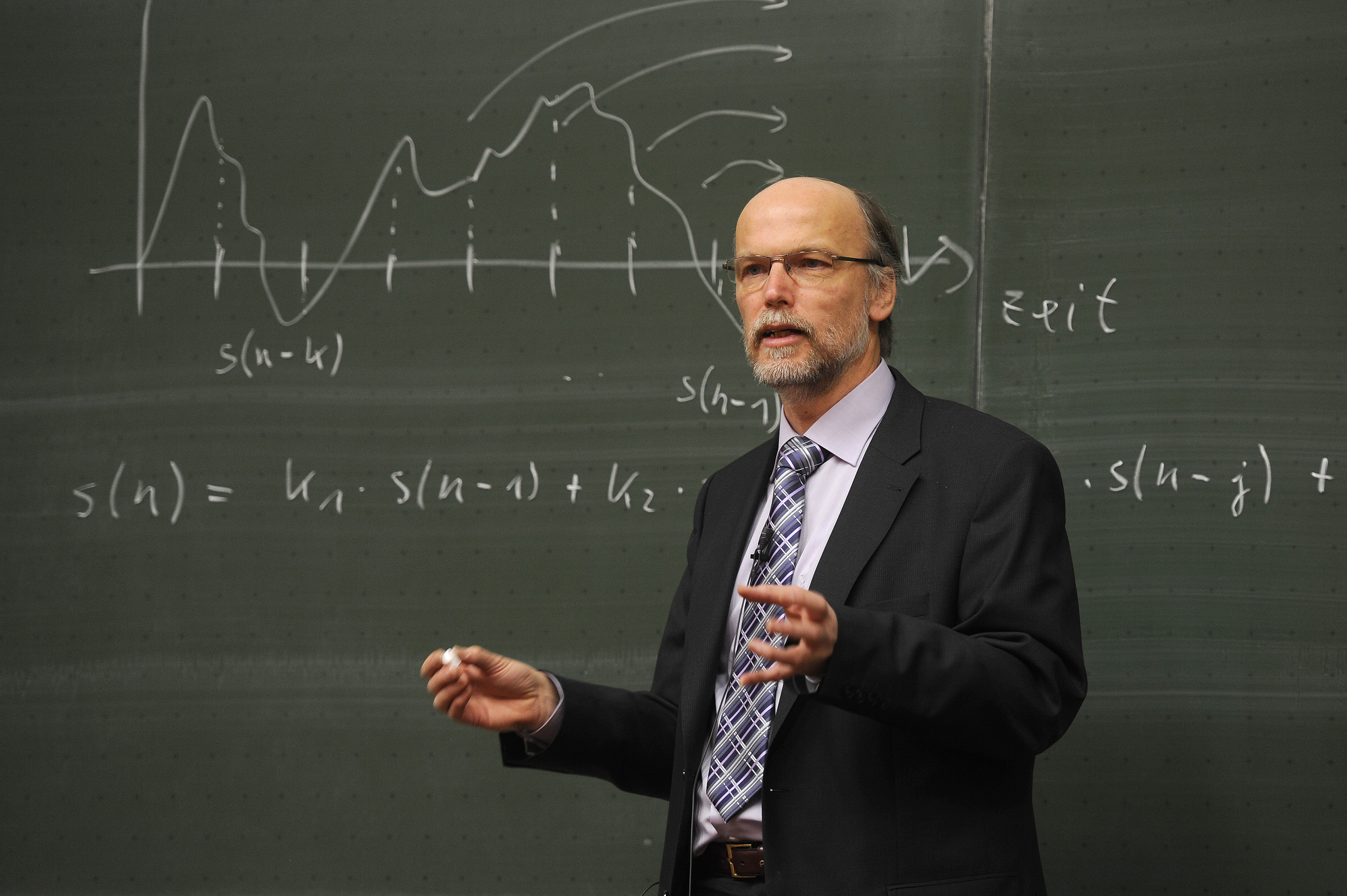 Birger_Kollmeier